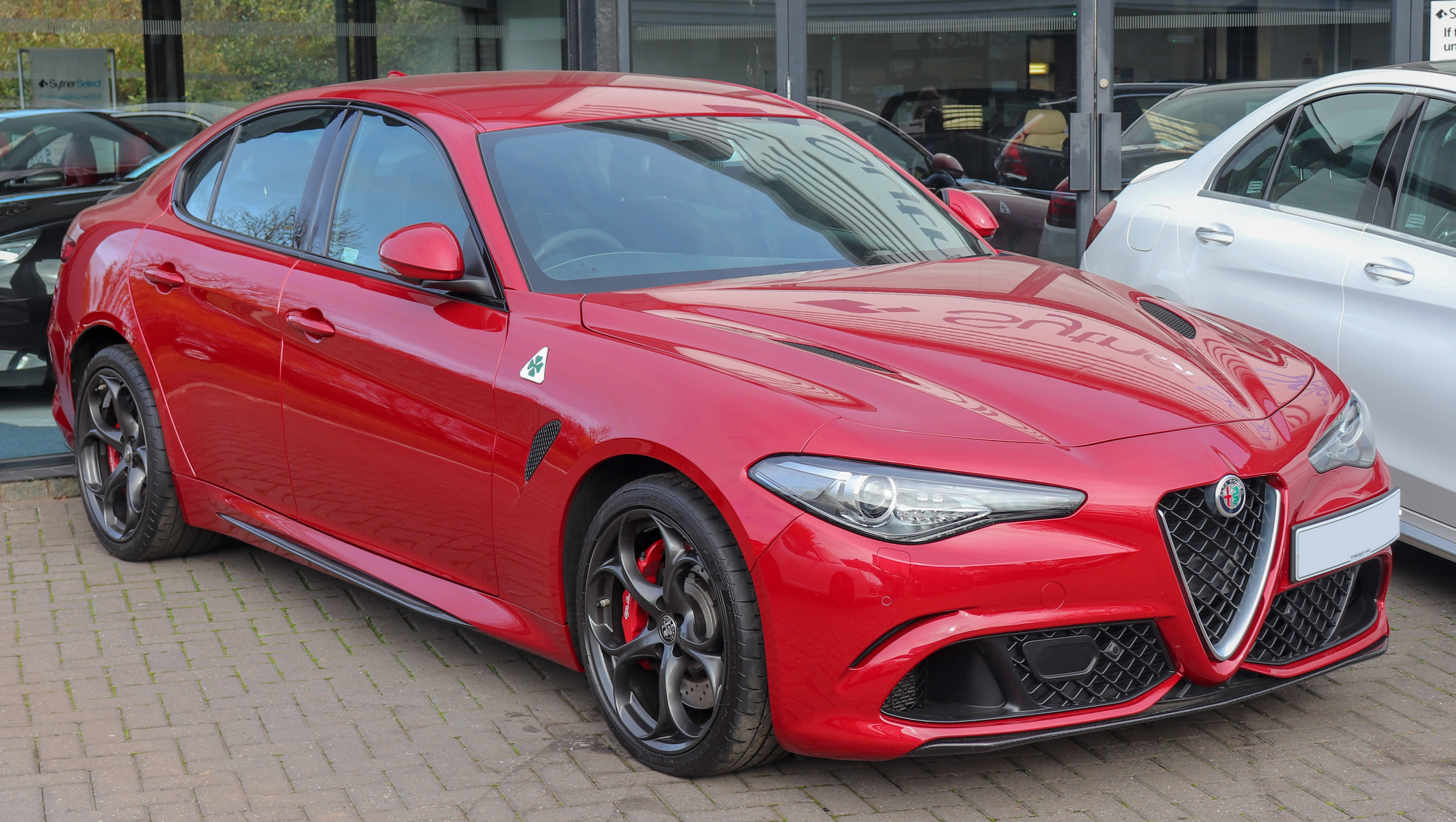 2017 Alfa Romeo Giulia V6 Biturbo Quadrifoglio 2.9 Taken in Leamington Spa